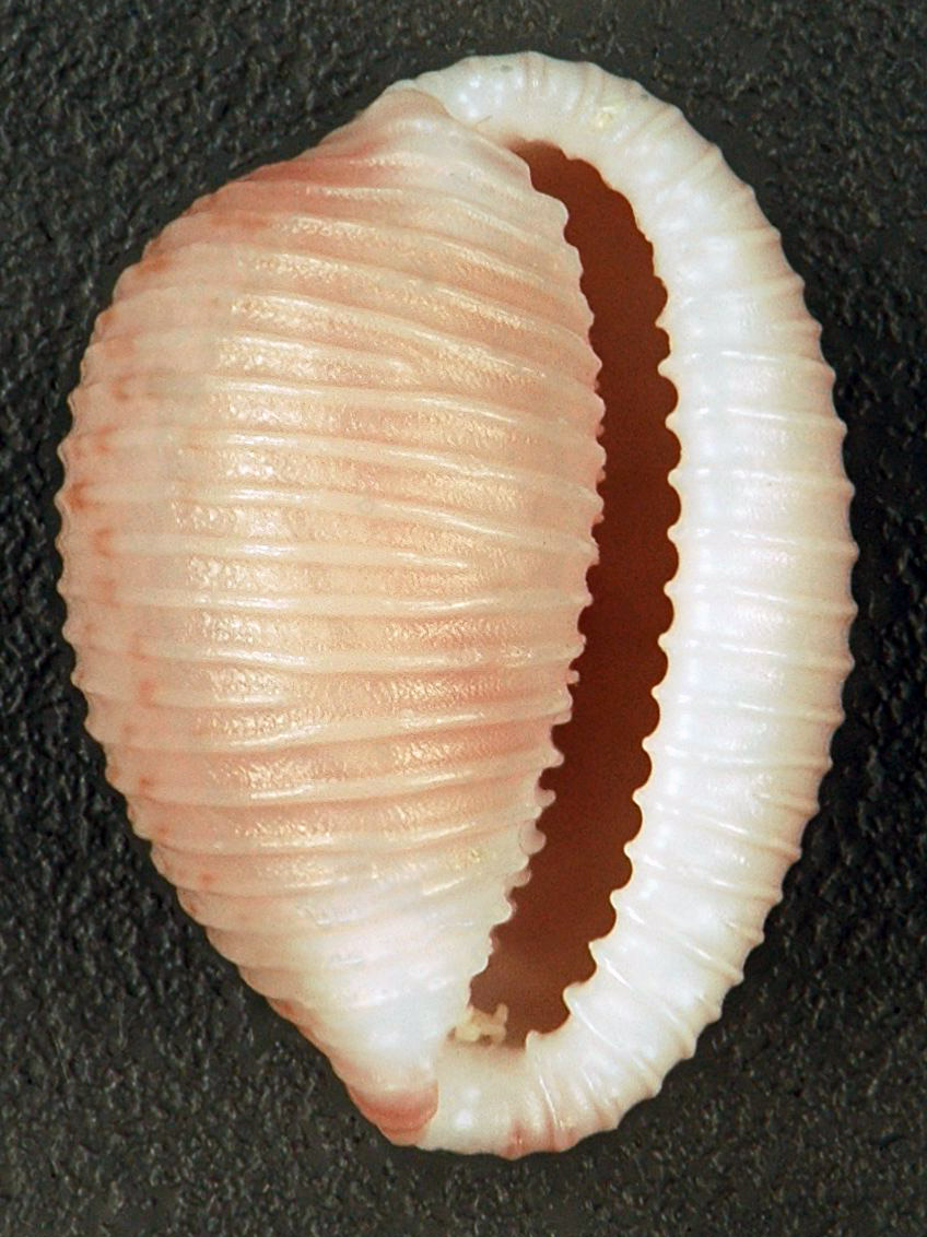 Niveria suffusa (Gray, 1827) - apertural view of a suffuse trivia snail shell, 0.95 cm tall. Family Triviidae - trivias generally have a cowry-like shell shape, with the shell’s spire covered as a result of sub-planispiral coiling. Unlike cowries, which have a smooth glossy adapertural shell surface, trivias have prominently ridged and grooved shell surfaces. Trivias prey on tunicates and some octocorals.